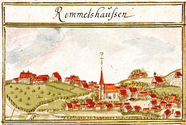 View of Rommelshausen, Kernen im Remstal, from the forest register books created by Andreas Kieser